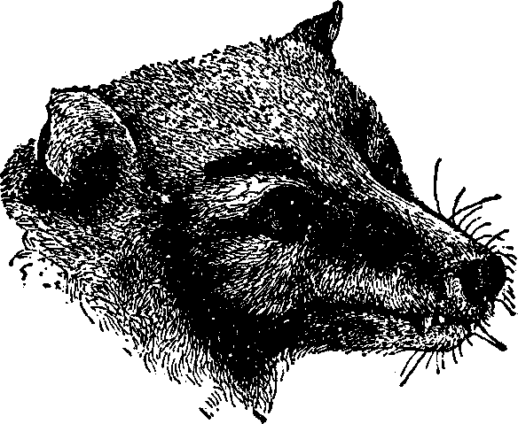 Head of a Flying-Fox or Fruit-Bat (Pteropus personatus). From Gray.